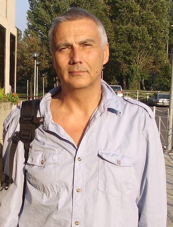 Krzysztof Krauze (born April 2, 1953) - multiple award winning Polish film director, screenwriter, photographer and cinematographer from Warsaw best known for his 1999 film thriller Debt.